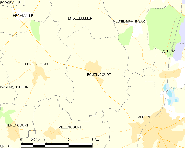 Map of French municipality Bouzincourt